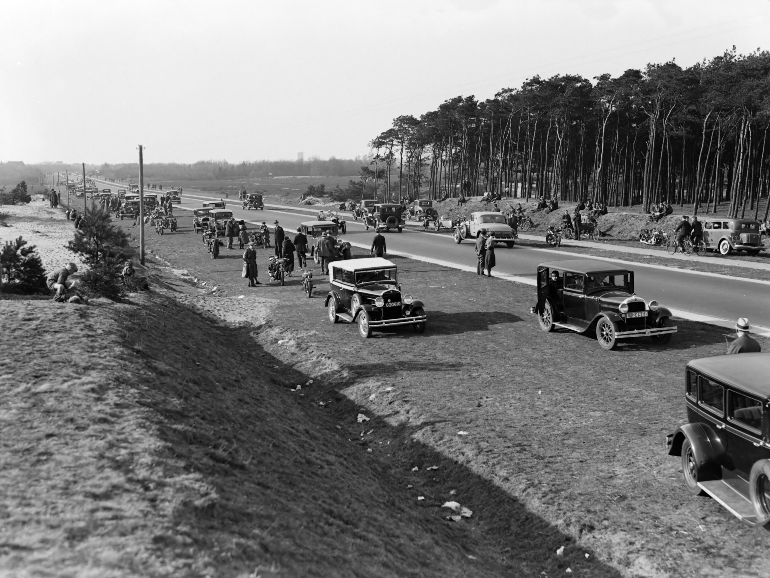 Cars on and near the Rijksweg over the Laarderhei